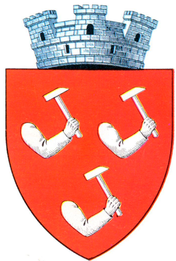 Interwar coat of arms of Târgu Ocna, Bacău County, Kingdom of Romania.